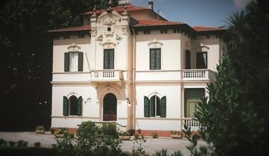 Villa Enrica Torre del Lago